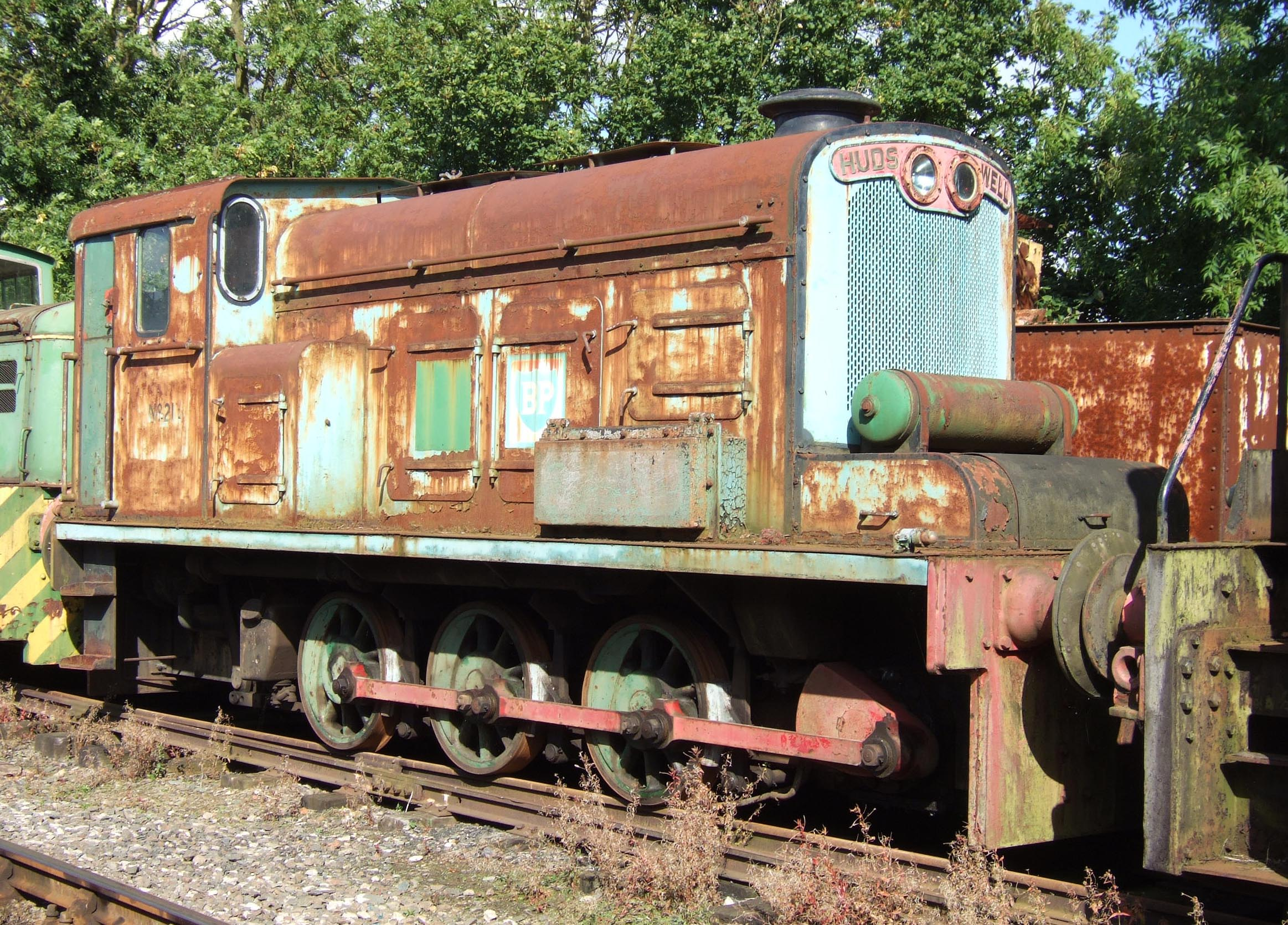 Hudswell Clarke 0-6-0DM D707 of 1950 at the Rutland Railway. This locomotive is fitted with flame proofing equipment to allow it to work in an Oil Refinery. 25th September 2005 Photographer - A.M.Hurrell Camera - Fuji FinePix F10 Modified - Trimmed and file size reduced using Adobe Photoshop 5.0LE